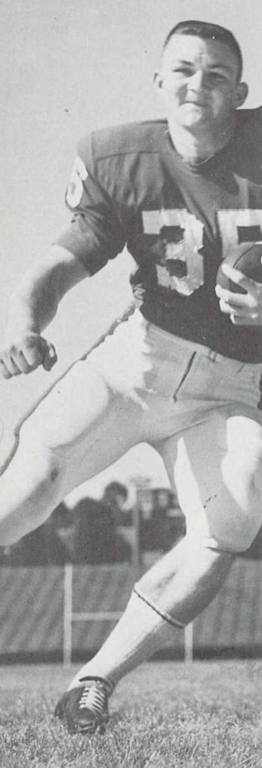 Photograph of Larry Dupree